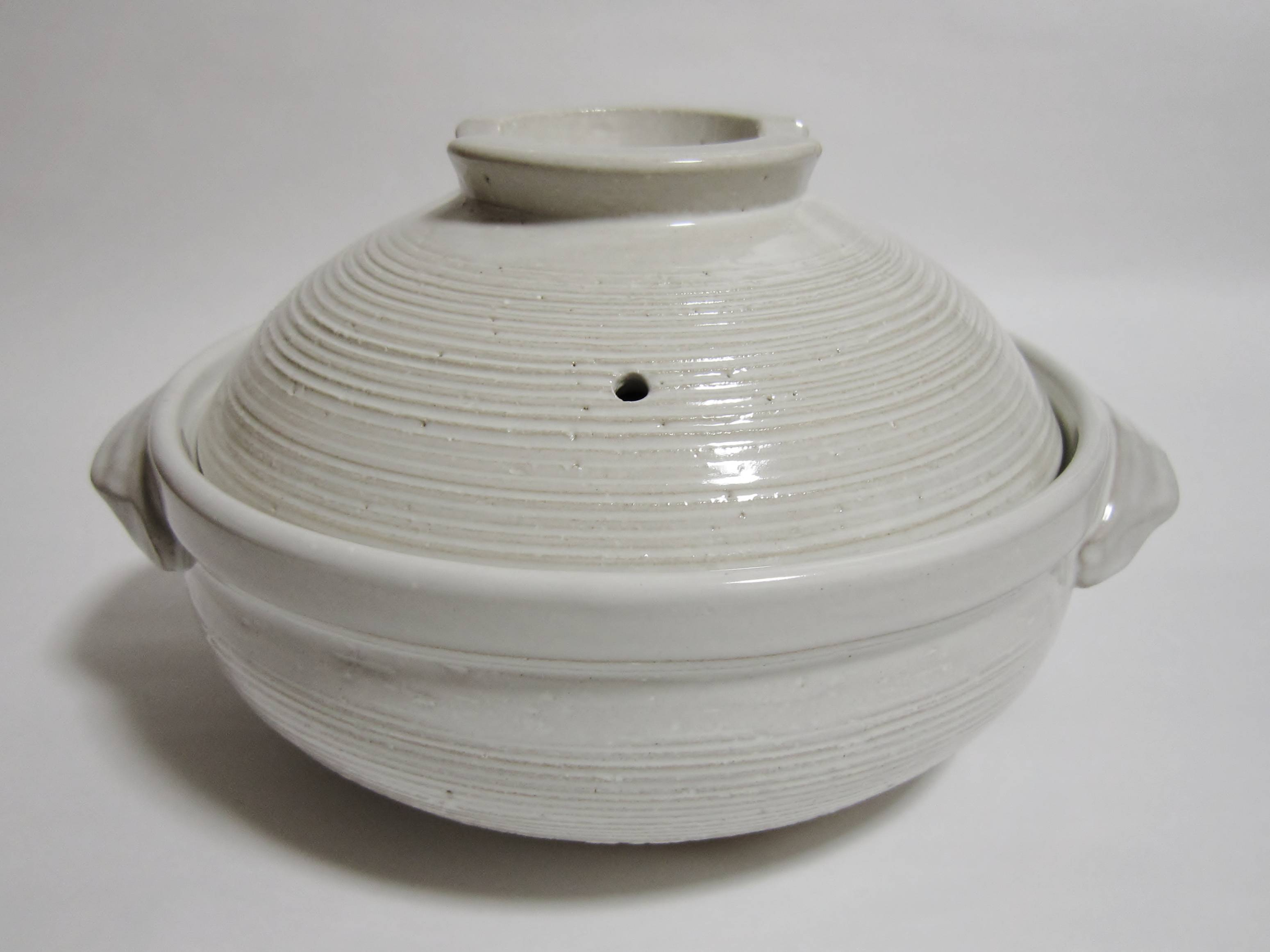 Cainz Donabe 'Hakusen-nagashi' φ19cm.